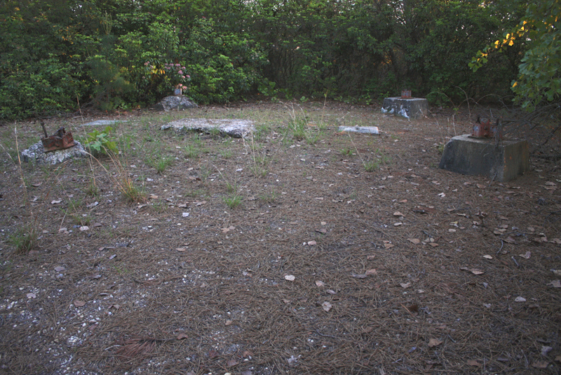 Foundations of fire lookout tower, Bear Swamp Hill, Penn State Forest, New Jersey, United States